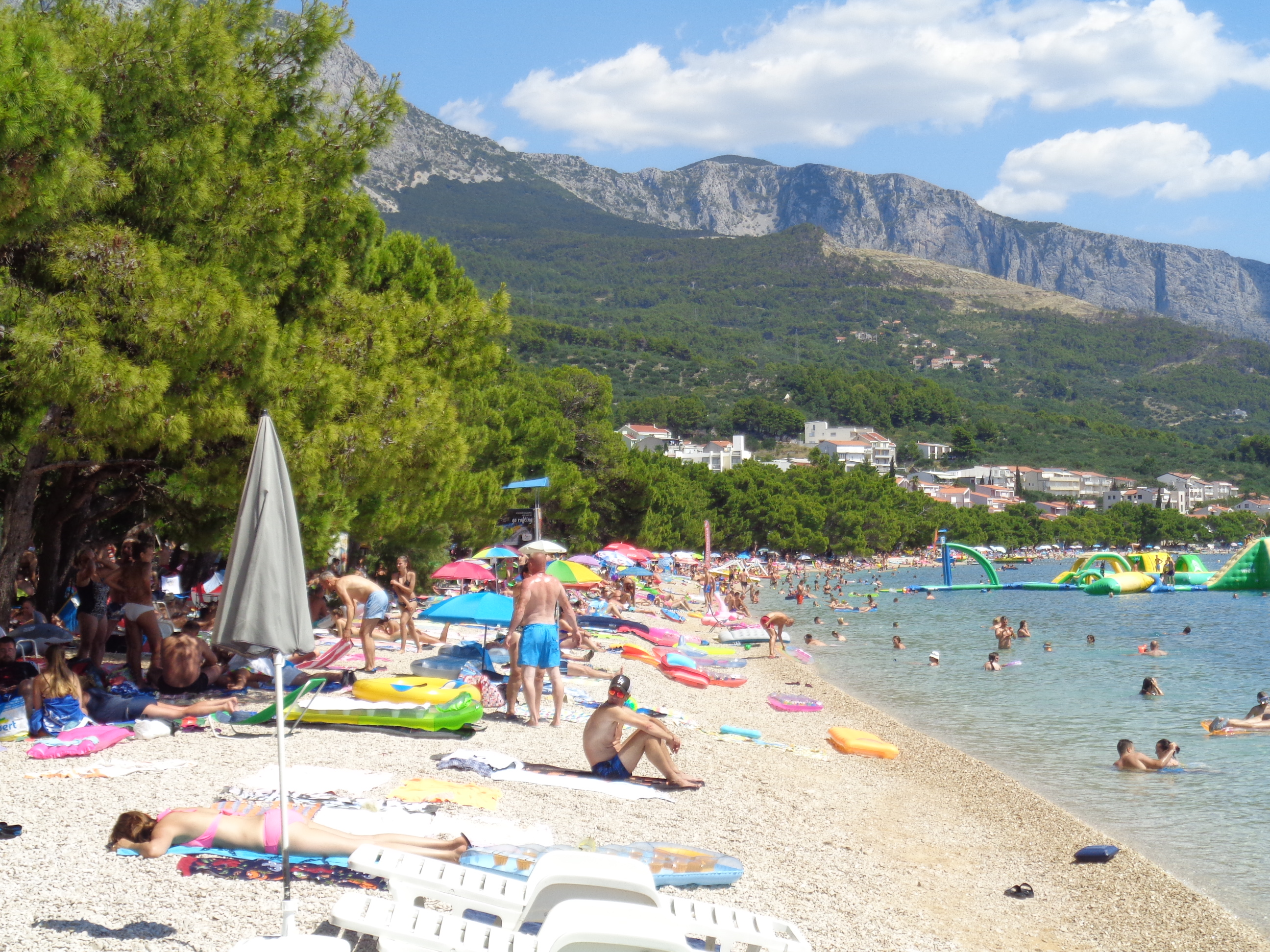 Tučepi at Makarska, Split-Dalmatia County, Croatia - Slatina beach